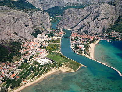 Omiš from above